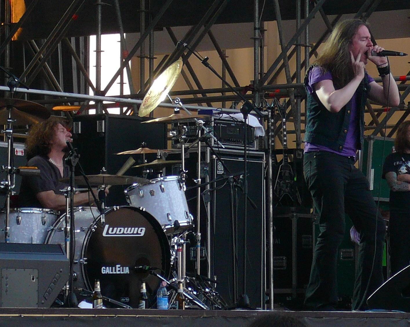 Cathedral live at Legends of Chaos Fest. From left to right: Brian Dixon and Lee Dorrian.